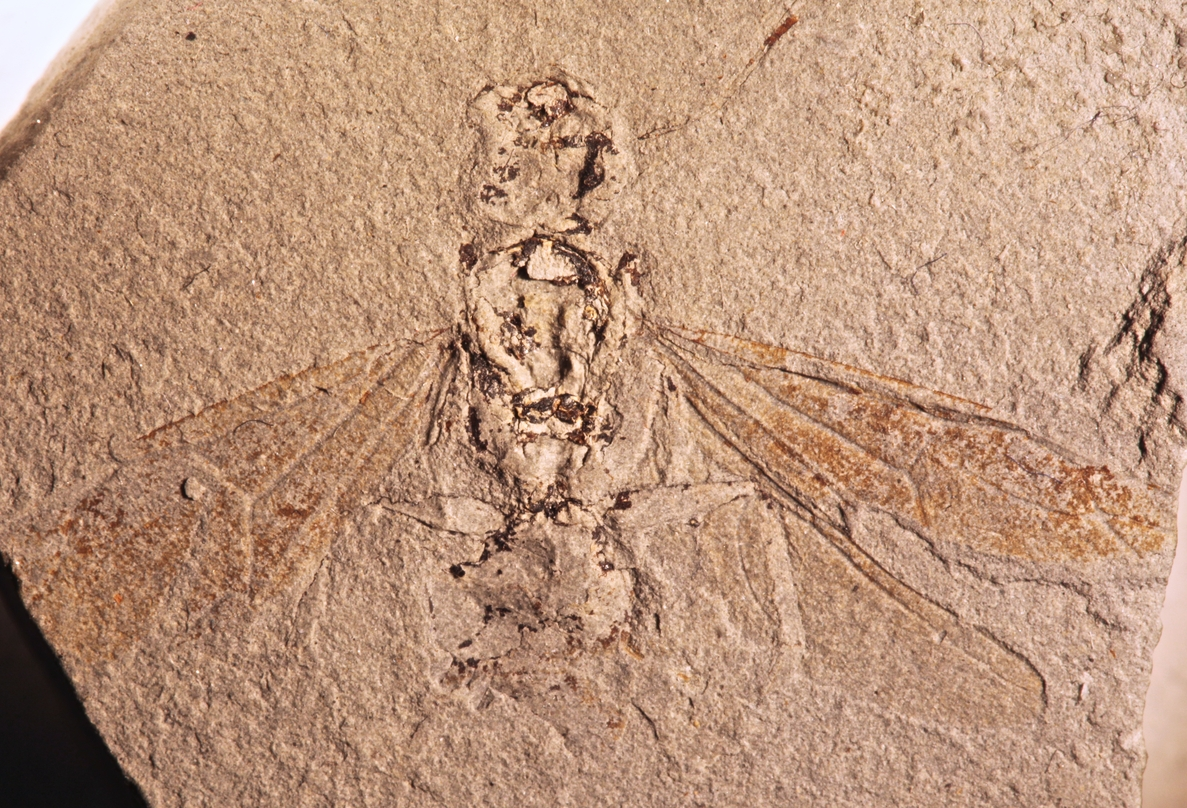 The Camponotites silvestris holotype queen. Piacenzian, Pliocene; Willershausen clay pit, Lower Saxony, Germany. Geowissenschaftliches Museum der Universität Göttingen, University of Göttingen, Göttingen, Germany; specimen GZG.W.14552